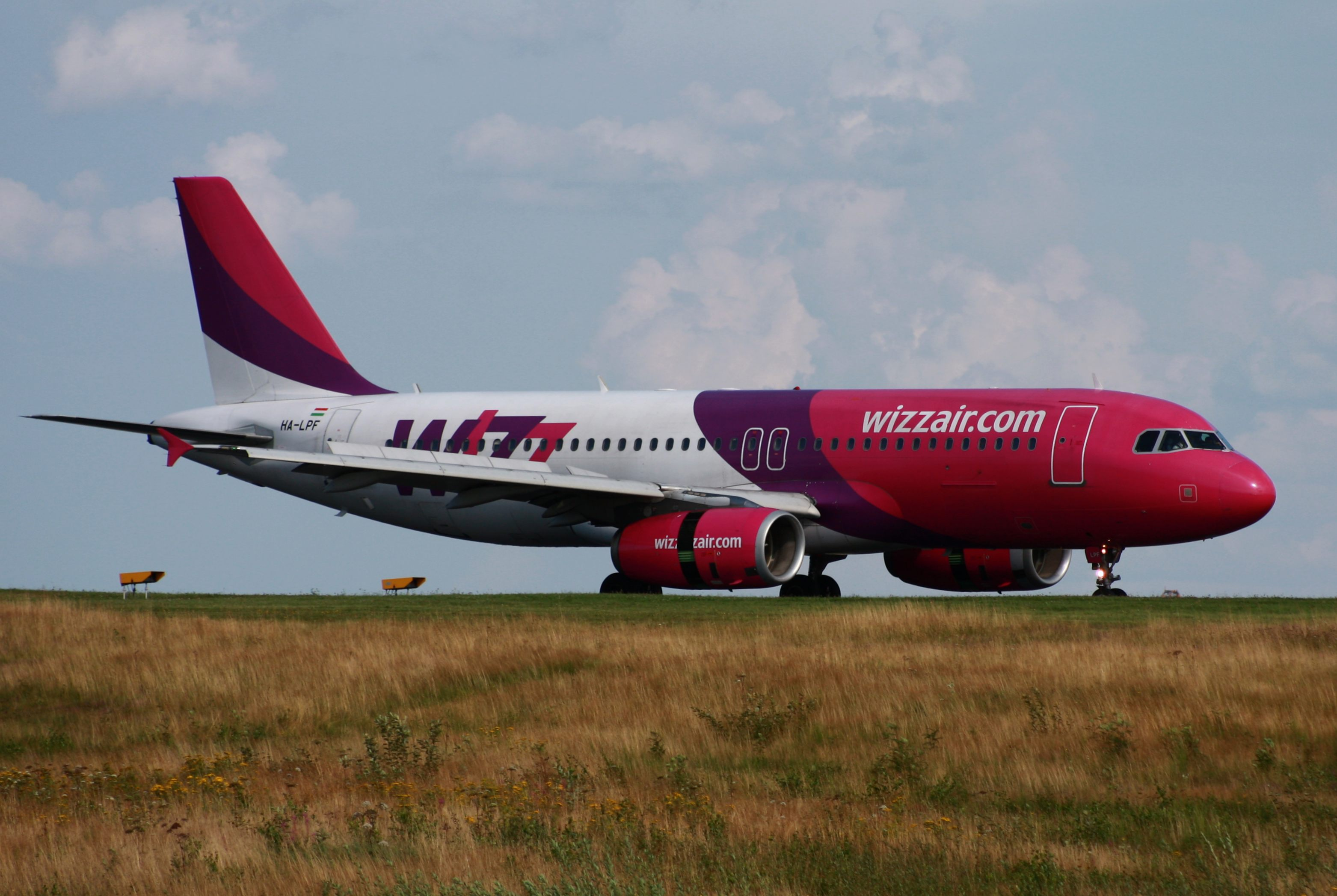 Airbus A320 (HA-LPF) landing in Hahn